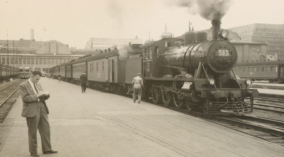 VR Class Hv2 steam locomotive (no. 583) at Helsinki Central railway station in 1960.